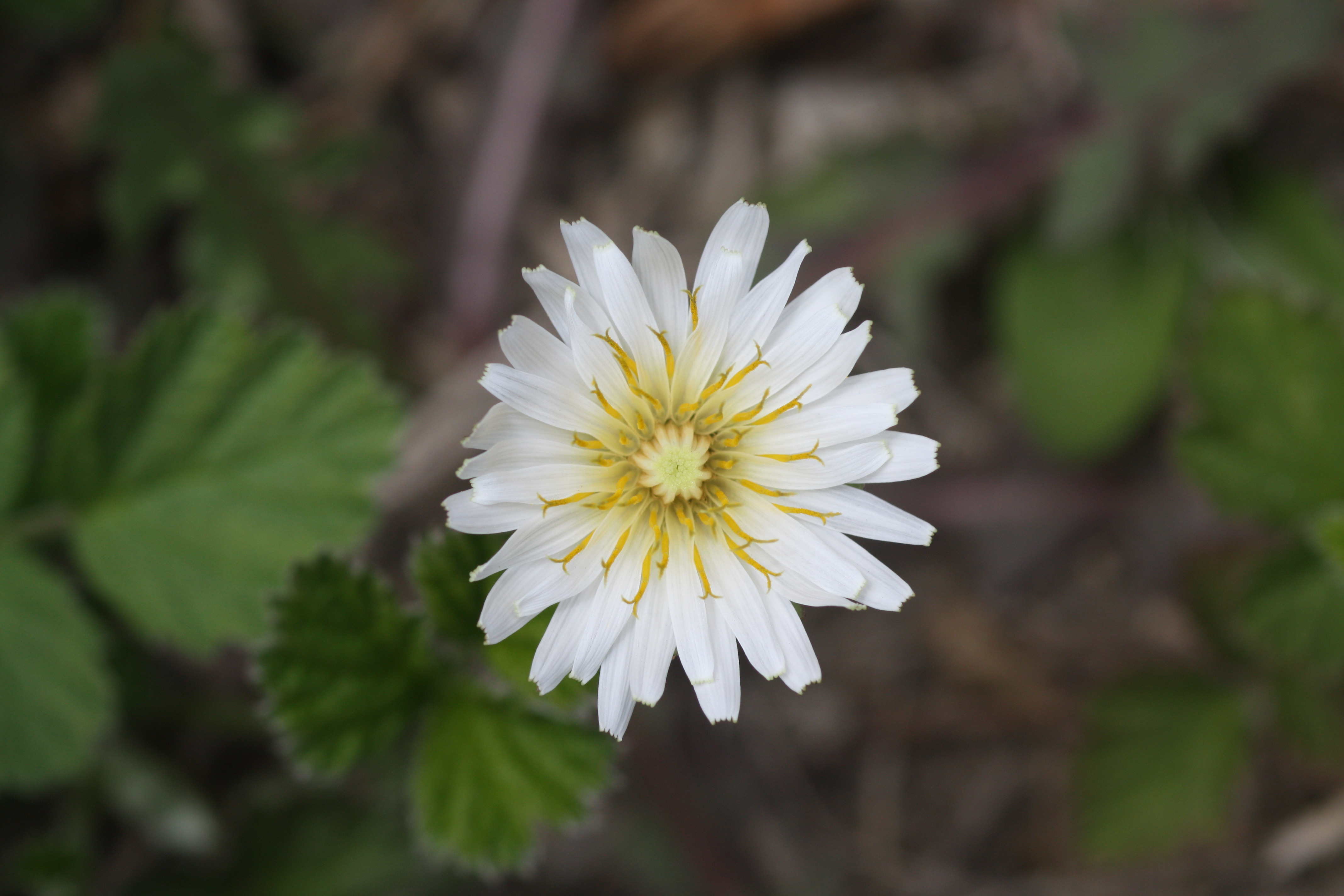 Taraxacum coreanum